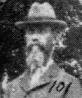 Portrait of John Blakeley, Confederate veteran from Newton County, Mississippi, Spann's Independent Scouts, American Civil War.